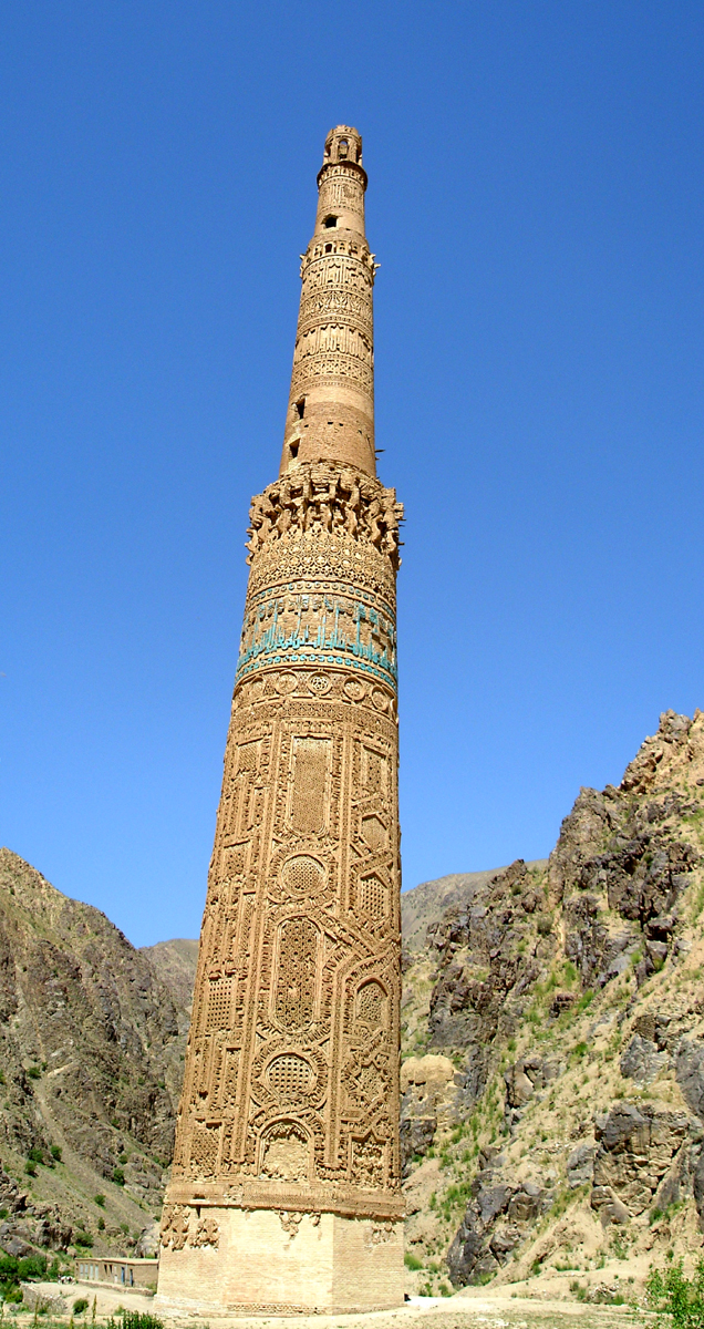 Jam_leaning_minaret_jam_ghor